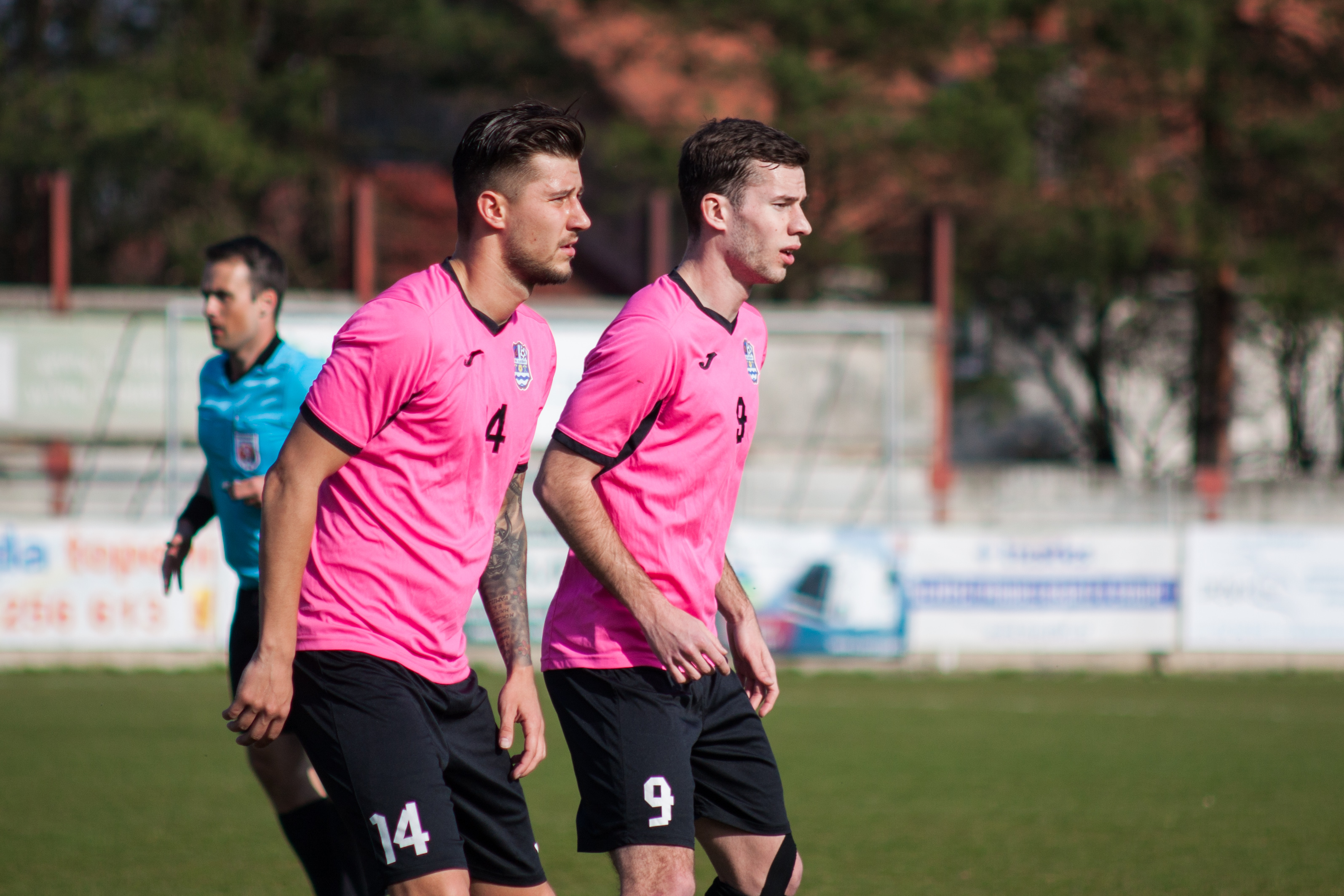 Czech Division E match between team SK Dětmarovice and MFK Havířov (1:0) played on 30 March 2019 (shot in Dětmarovice, Karviná District, Moravian-Silesian Region, Czechia)